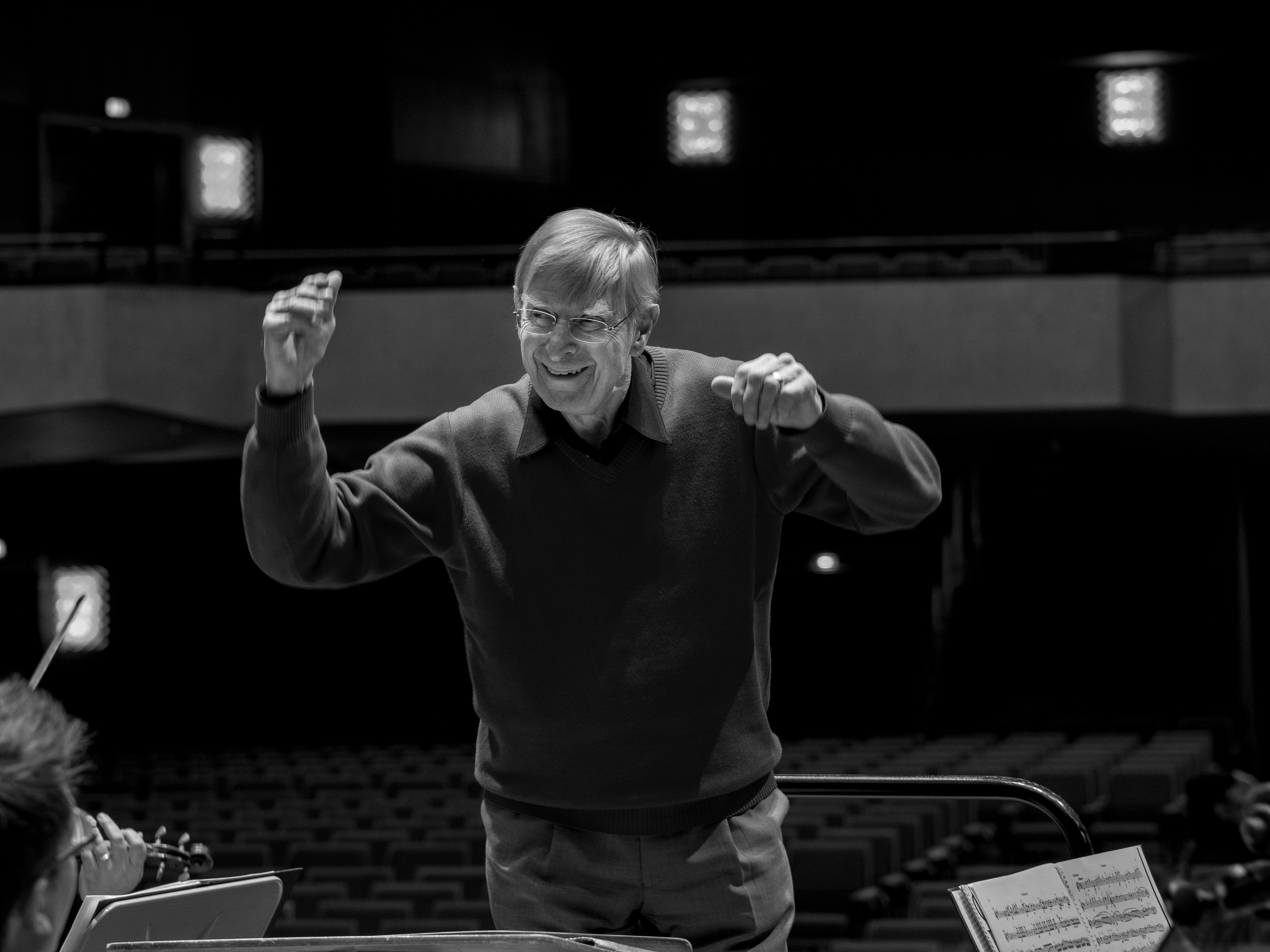 the Swedish conductor Herbert Blomstedt at a rehearsal with the Bamberg Symphony orchestra